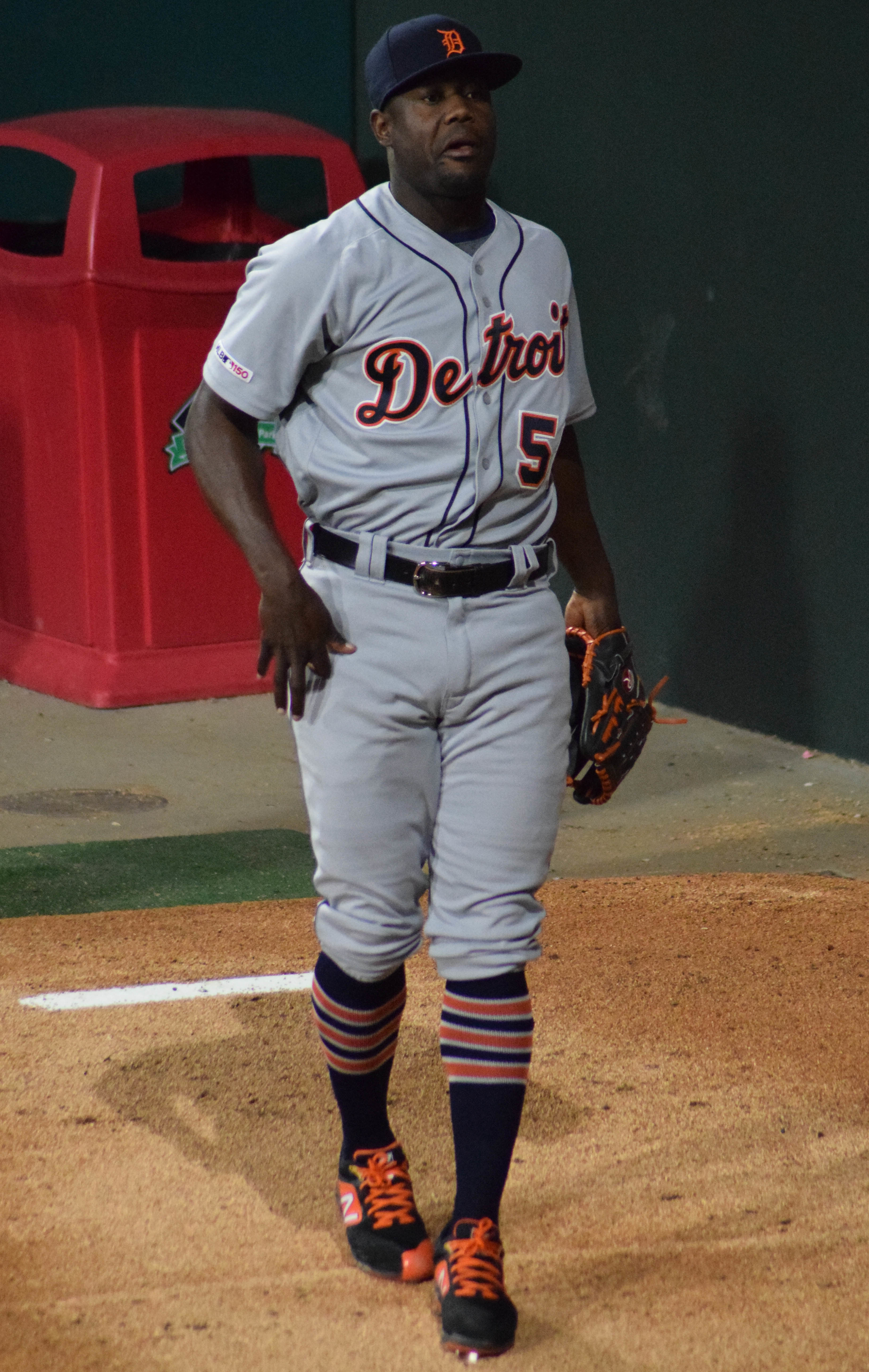 Victor Alcantara of the Detroit Tigers at Citizens Bank Park in Philadelphia in April 2019.